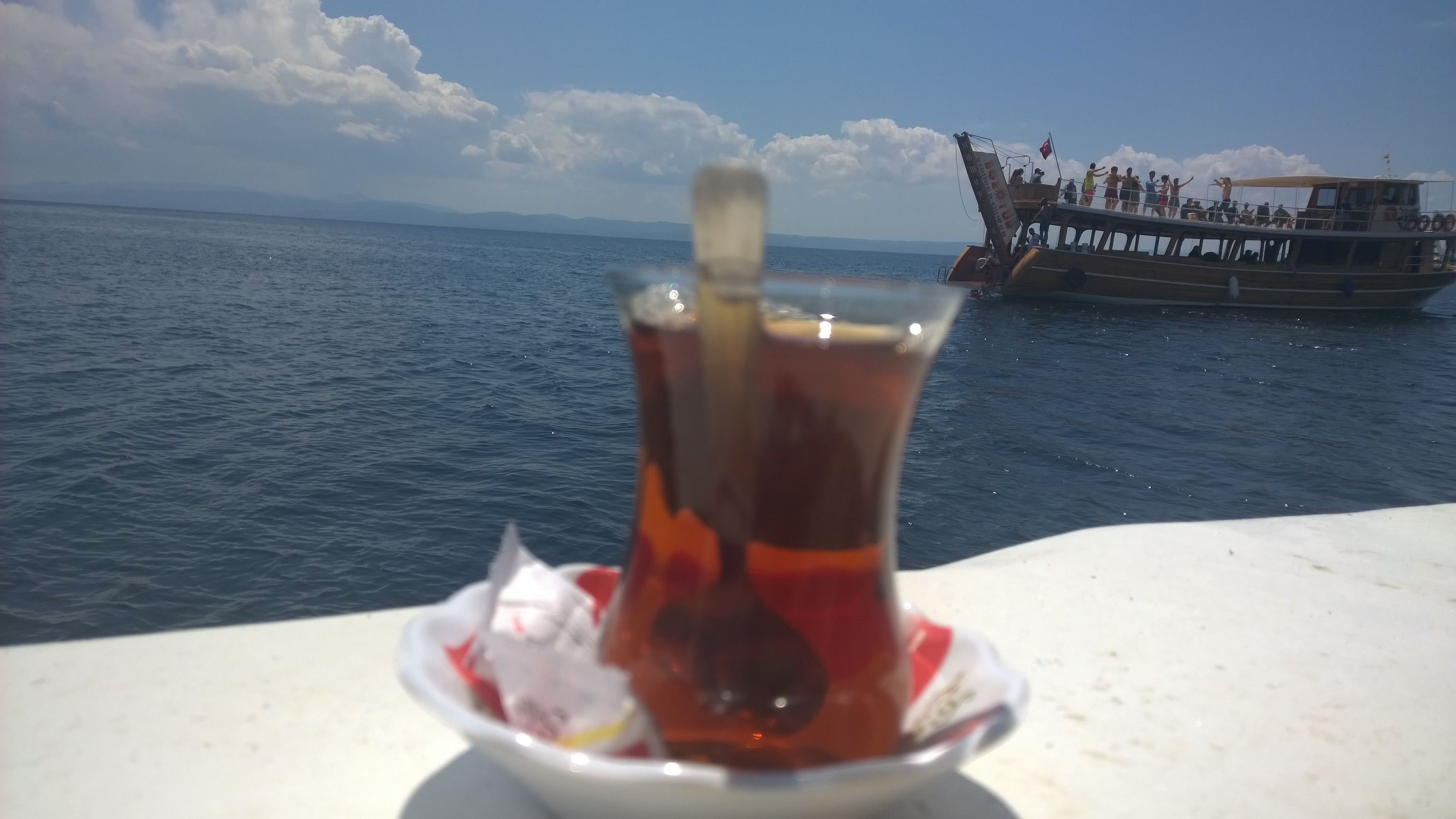 Traditional Turkish tea